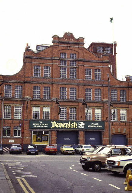 Devenish Weymouth Brewery, now Brewer's Quay, in Hope Square, Weymouth, Dorset, England.